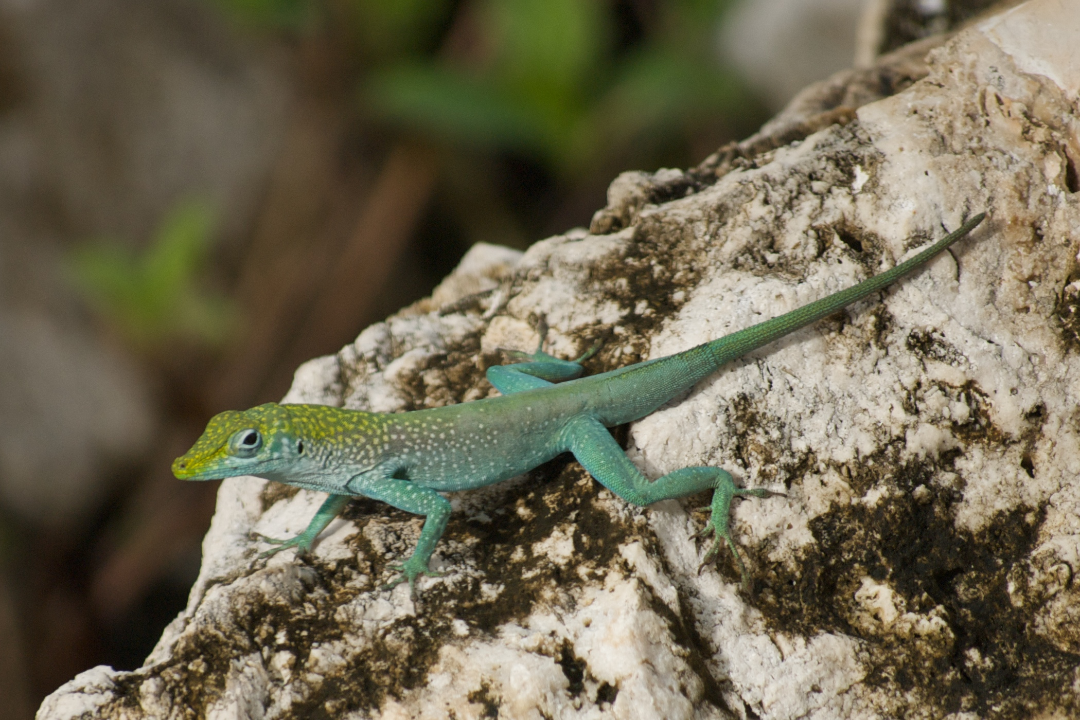 blue throated anole on rocks